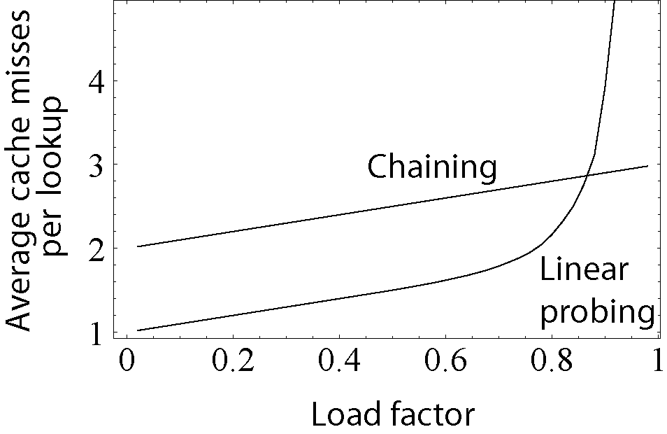 Shows the average number of cache misses expected when inserting into a hash table with various collision resolution mechanisms; on modern machines, this is a good estimate of actual clock time required. This seems to confirm the common heuristic that performance begins to degrade at about 80% table density. Created in Mathematica, Illustrator, and Photoshop. It is based on a simulated model of a hash table where the hash function chooses indexes for each insertion uniformly at random. The parameters of the model were: A table size of 1,000 elements. An L1 cache line size of 16 words, as on the Pentium 4. L2 cache effects are not accounted for. For modern CPUs, which have many kilobytes of L1 cache, same logic applies for tables far bigger than size of the cache. You may be curious what happens in the case where no cache exists. In other words, how does the number of probes (number of reads, number of comparisons) rise as the table fills? The curve is similar in shape to the one above, but shifted left: it requires an average of 24 probes for an 80% full table, and you have to go down to a 50% full table for only 3 probes to be required on average. This suggests that in the absence of a cache, ideally your hash table should be about twice as large for probing as for chaining.